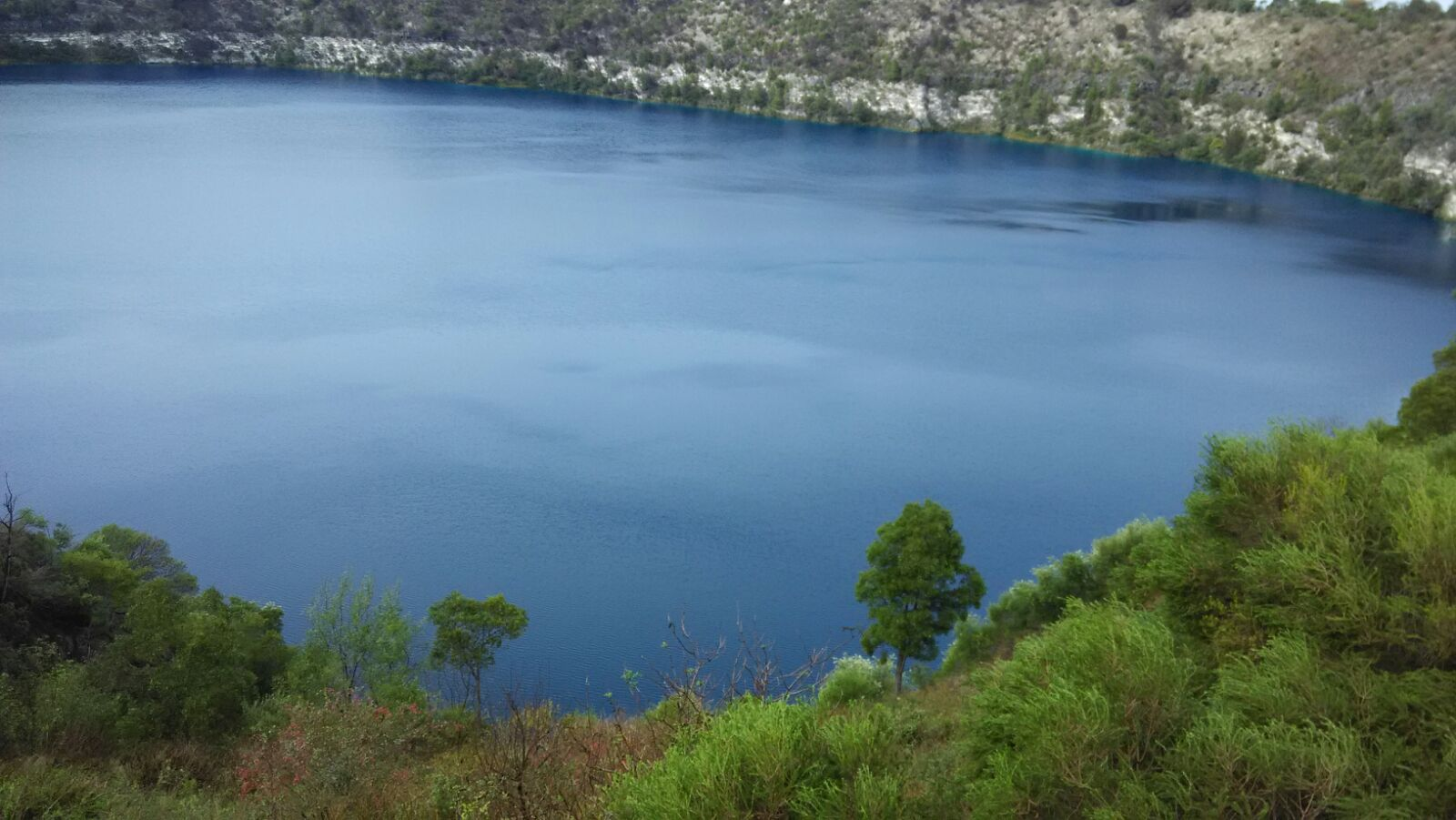 Lake formed in an extinct volcano at Mt Gambier